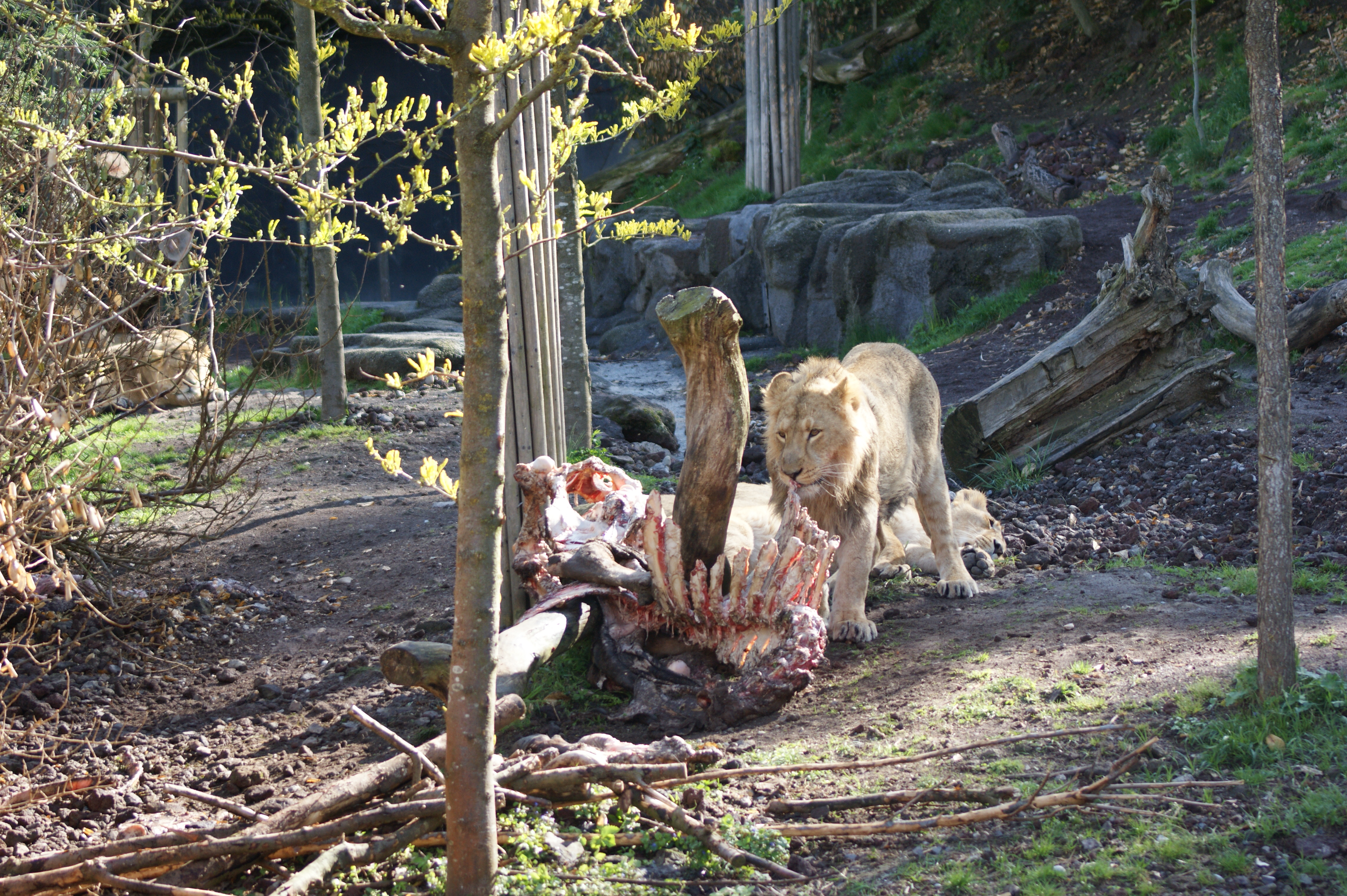 Asiatic Lions (Panthera leo persica) at Zoo Zurich